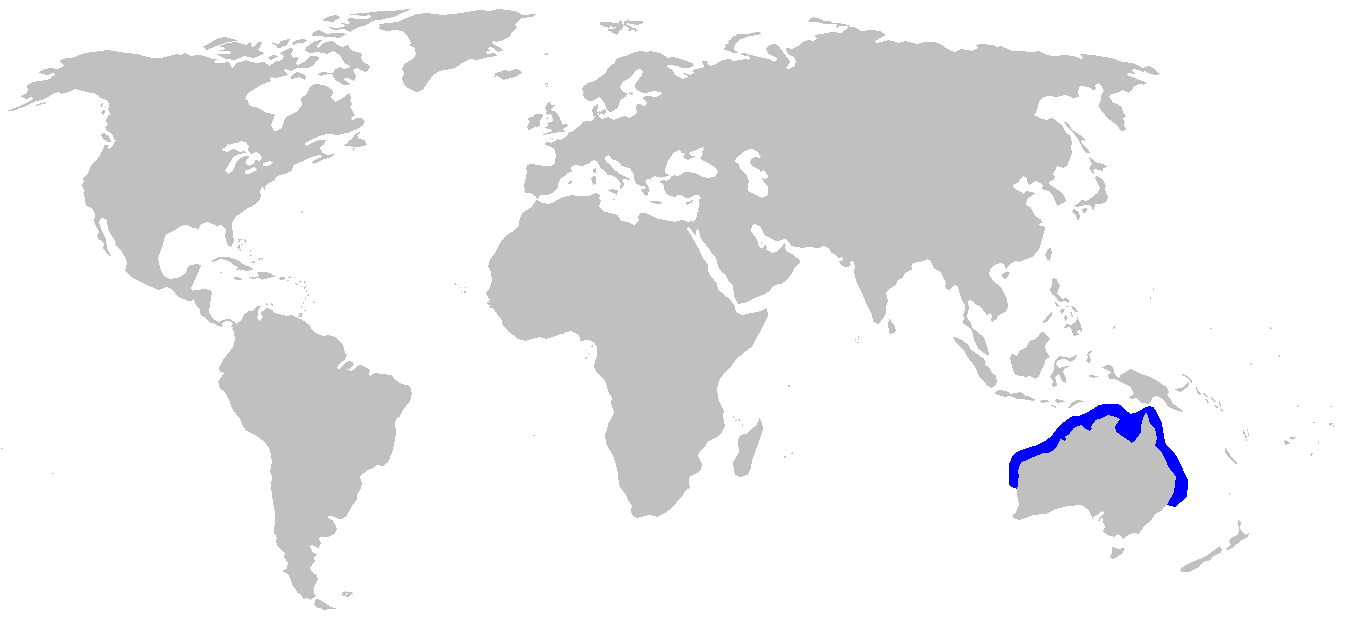 Distribution map for Rhizoprionodon taylori